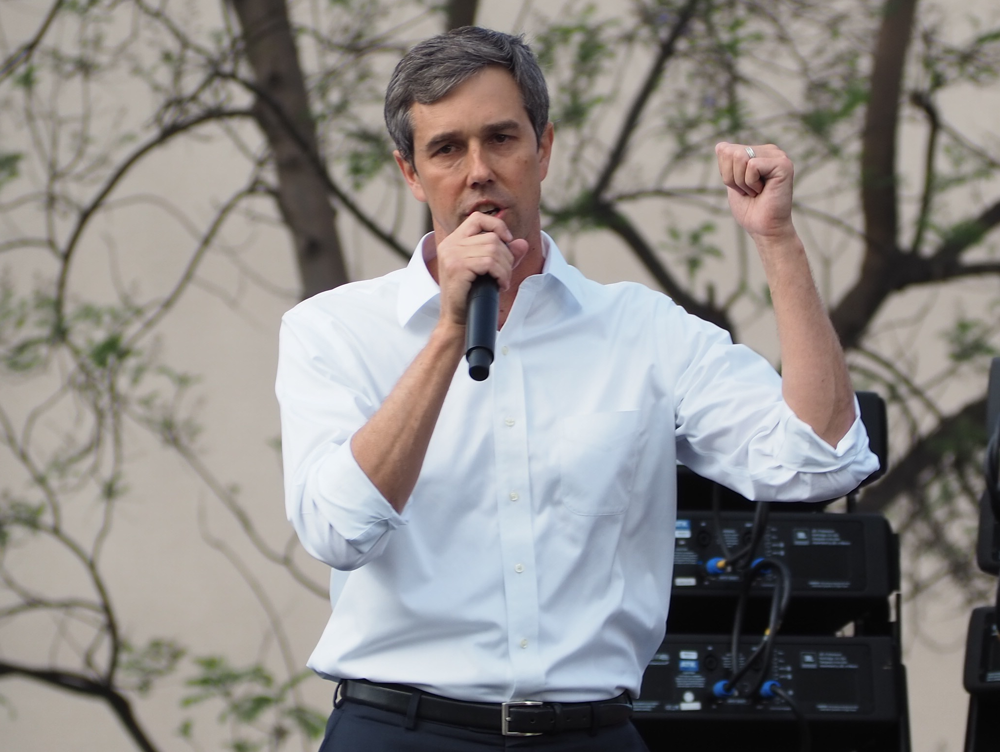 Beto O'Rourke Democratic presidential candidate Beto O'Rourke held a campaign rally at Los Angeles Trade Tech College on April 27, 2019, attended by several hundred supporters. He was introduced by Los Angeles City Councilwoman Monica Rodriguez.